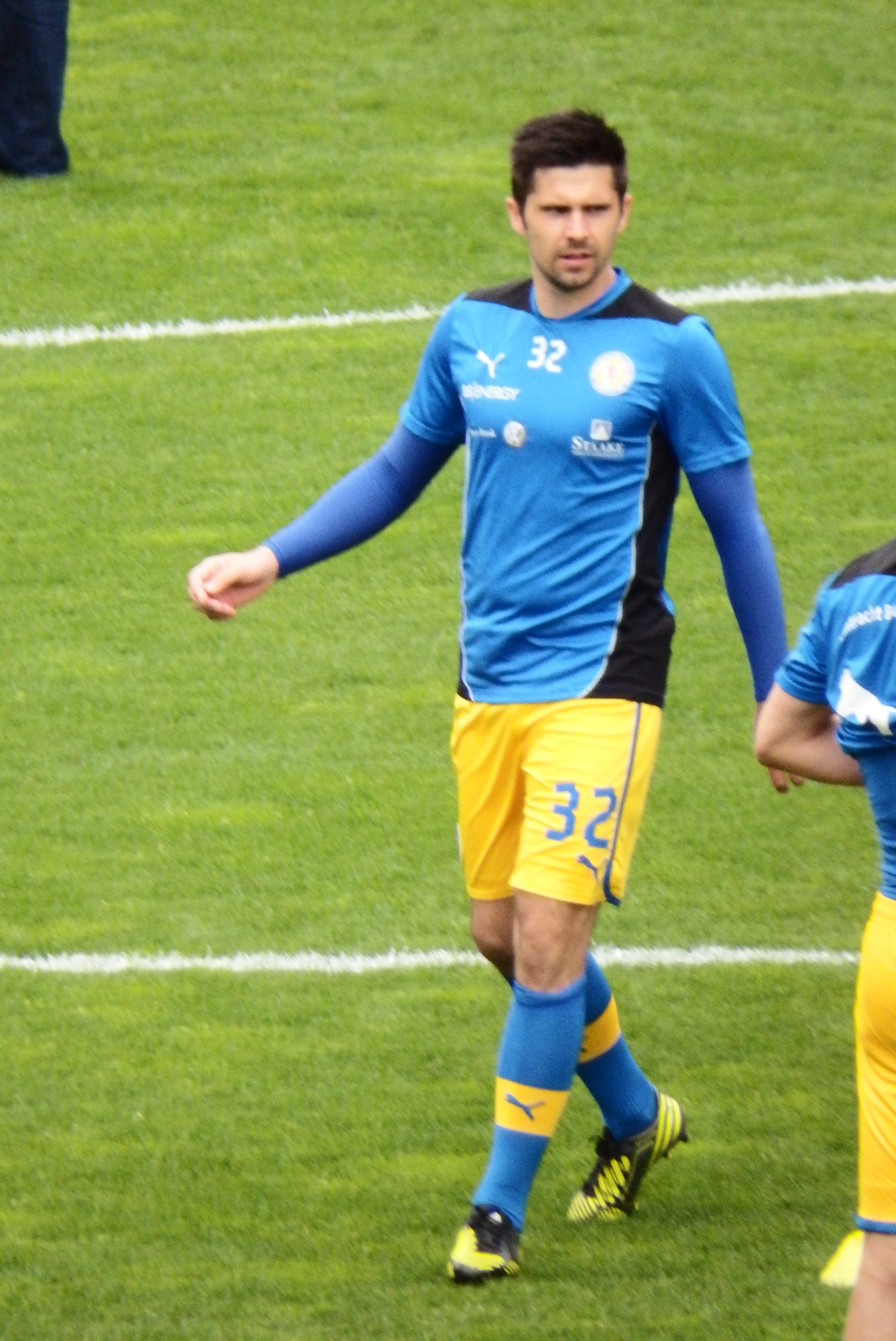 Dennis Kruppke as Player of Eintracht Braunschweig